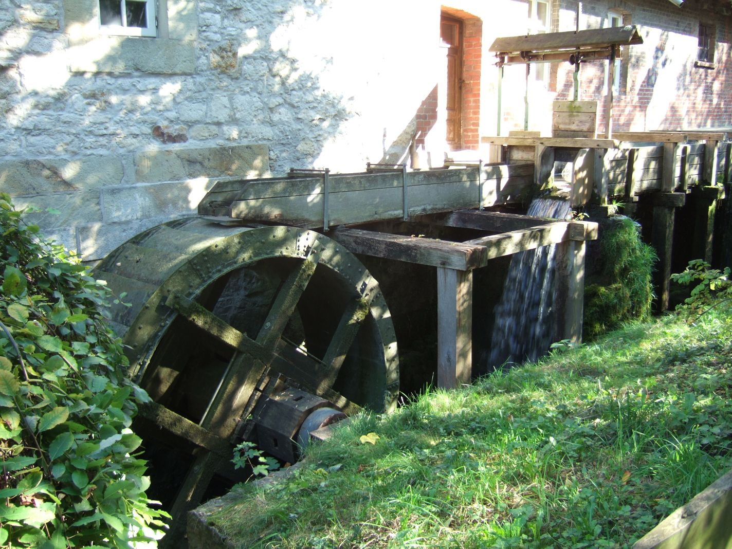 Watermill Nettlingen, Germany